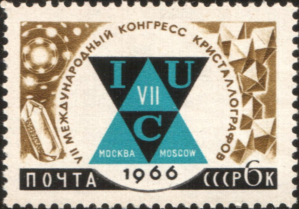 Stamp of USSR: 7th Crystallography Congress (12-21.07, Moscow). Congress emblem: crystals. To the left of the emblem - artificially grown up crystal of quartz, on the right - structure of scheelite mineral. Ol bis, blk & bl Issue: International Scientific Congresses to Be Held in USSR. Designer: V. Pimenov. Face value: 0.06. H 11½. Photogravure. Size: 40 x 28 mm. Sheet: 5 x 10. Issued: 4,000,000